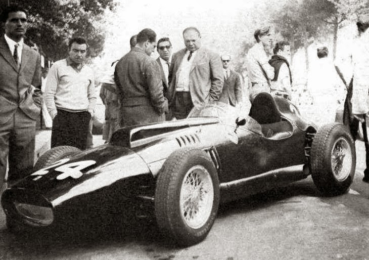 Dino 156 F2 s/n 011 at 1957 Gran Premio Napoli. It was raced by Luigi Musso to a 3rd place.[1] This was the first car that had the new 65° V6 engine by Jano.[2] It was also the first car to carry the "Dino" name. This particular car was later occasionally (and confusingly) renamed to "246 F1" due to engine change.[3]